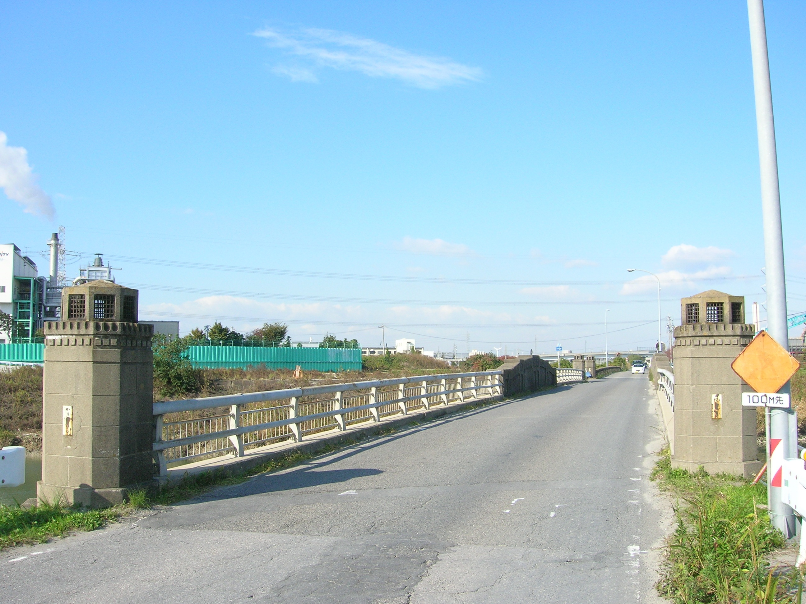 Kariya-bashi (Kariya bridge). The bridge was built in 1934. Loc: , Kariya city, Aichi Prefecture, Japan. 刈谷橋から境橋方向 撮影場所 愛知県刈谷市